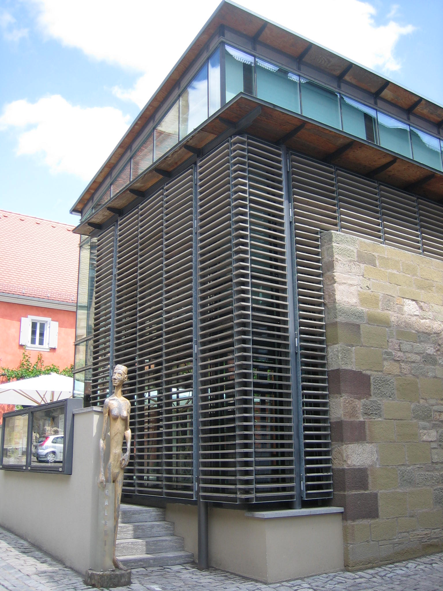 The Vinothek in Iphofen combines a baroque town house from the 17th century with a modern cubical building in glas and steel.